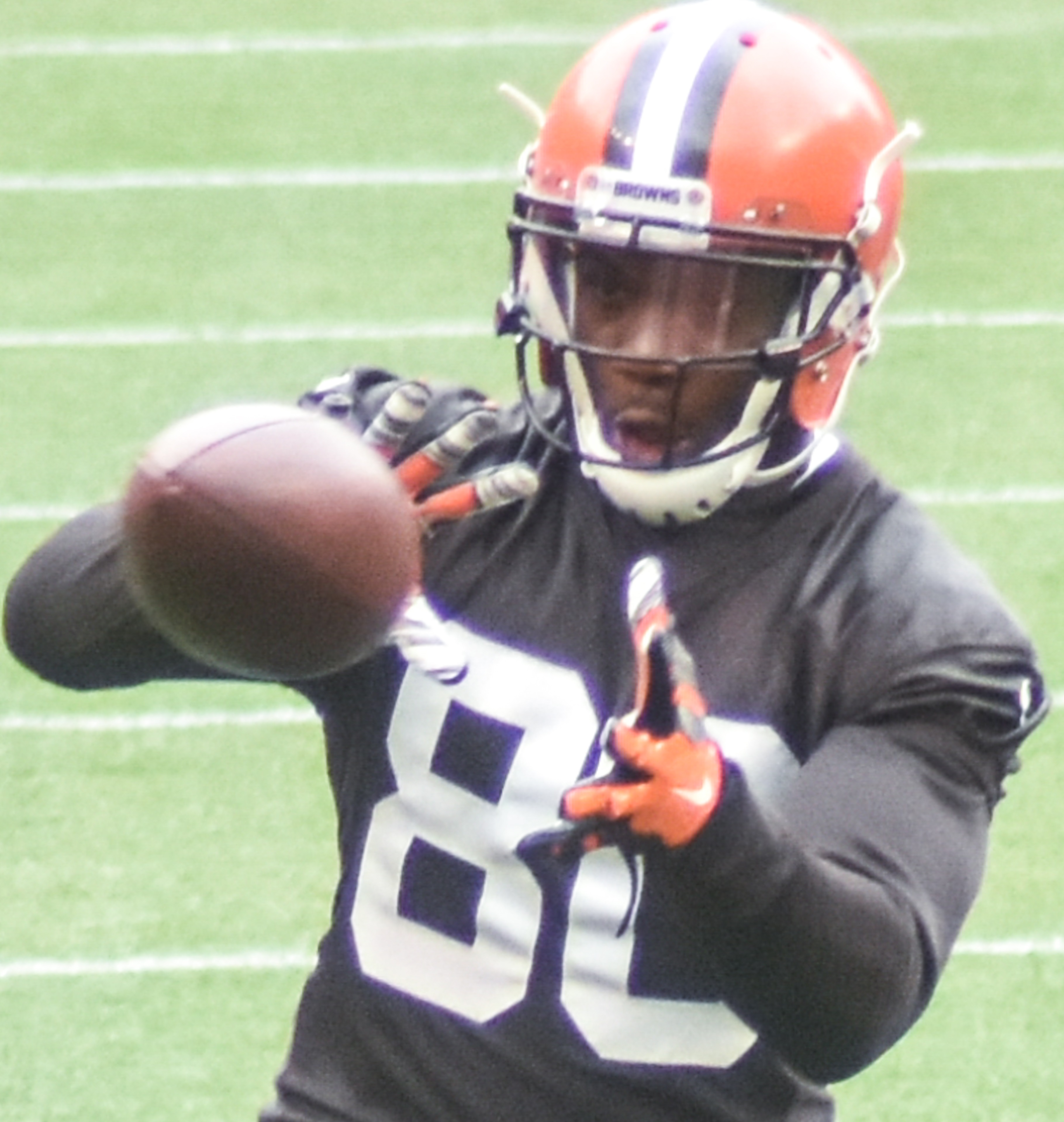 Louis in 2016 Browns' mini camp